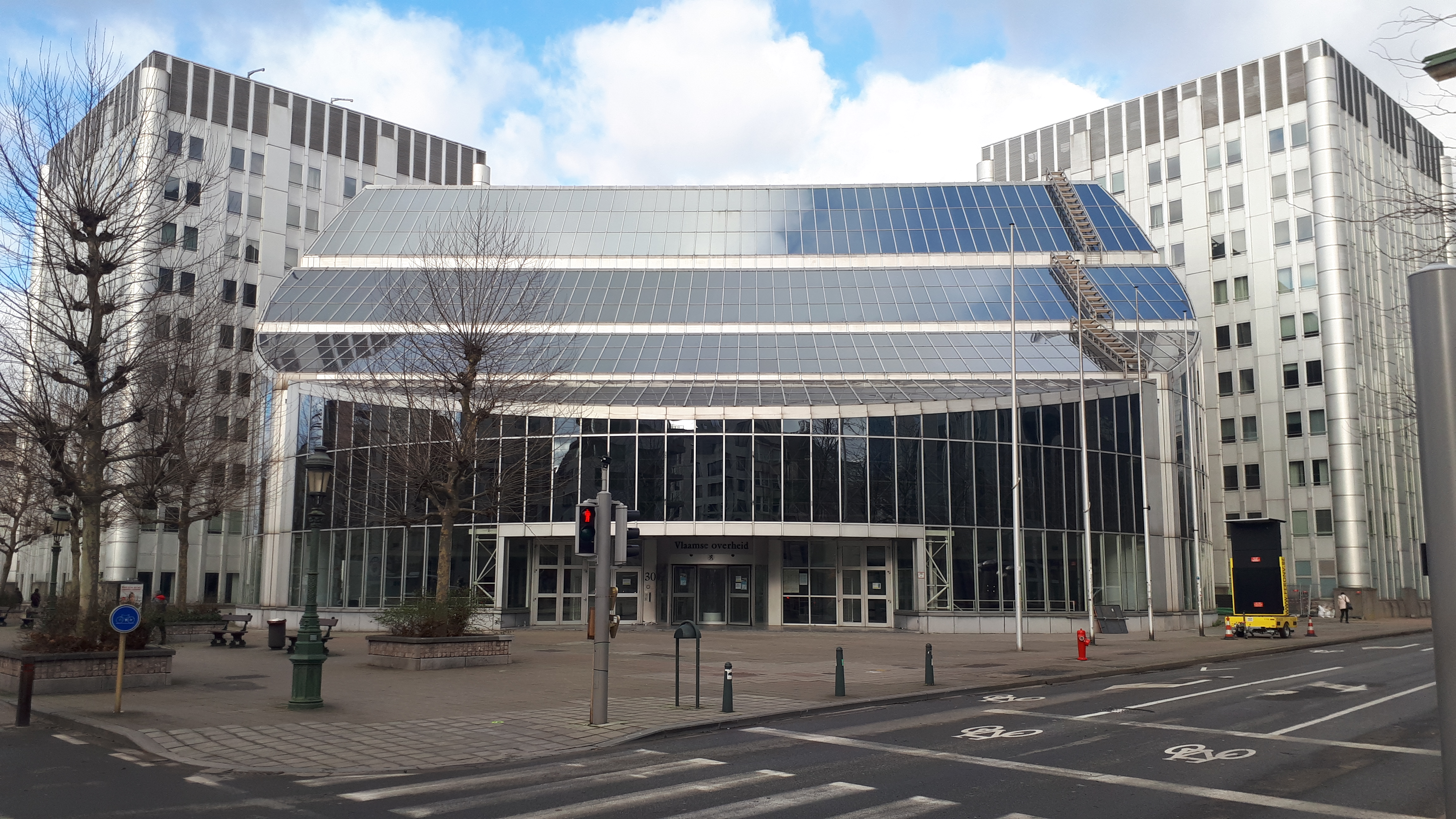 Hendrik Consciencegebouw front